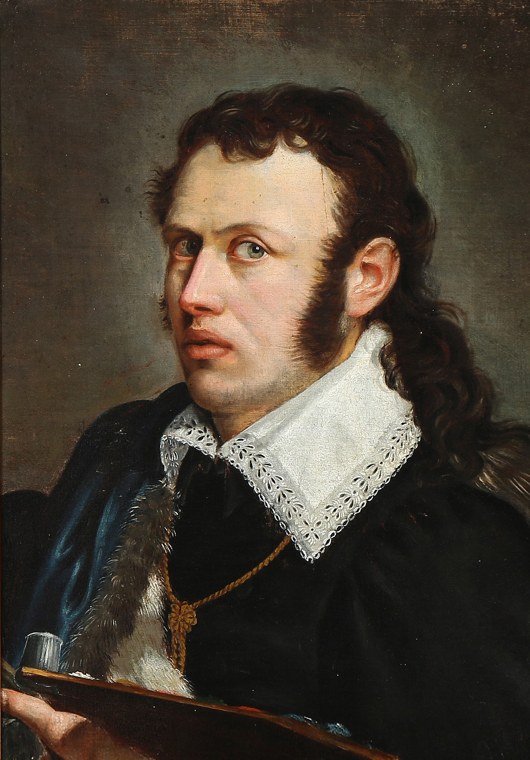 It is believed that this self-portrait was done in 1821 and given by Martens to his father. When Johan Lorenz Martens died in 1834, the painting was acquired by Ditlev Martens.